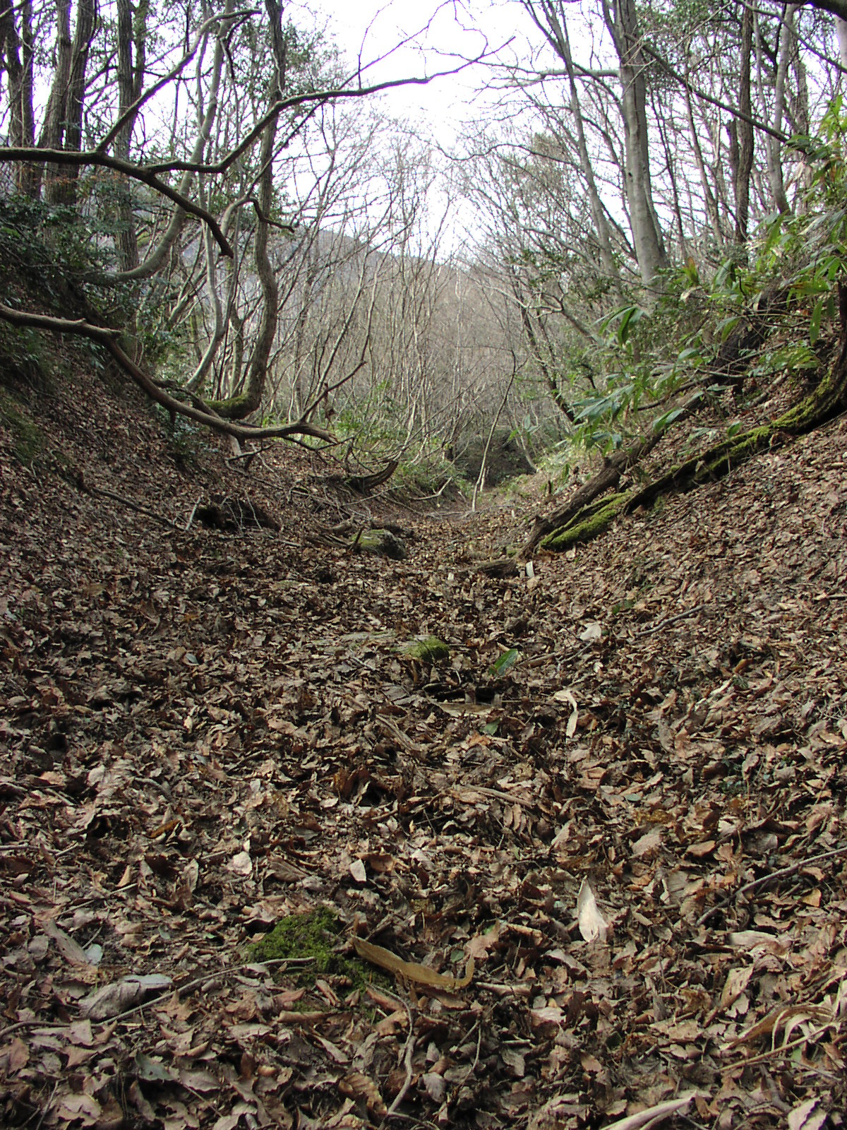 Fukasaka Pass is the boundary between Fukui and Shiga.